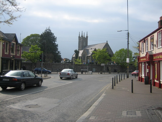 Castleknock Village, near to Palmerston, Blachardstown, Castleknock, Ashtown and Dunsink, Dublin, Ireland. Castleknock Village at the junction of Castleknock Road and College Road. The church is St Brigid�s Church of Ireland (Anglican). Aras an Uachtarain ( The presidents residence) lies just inside the Parish boundary in the Phoenix Park and St Brigid�s therefore has a President�s Pew.